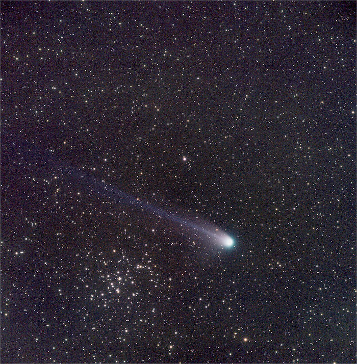 Photo of comet C/2001 Q4 (NEAT) next to Messier 44 (also called Praesepe), logarithmed image.